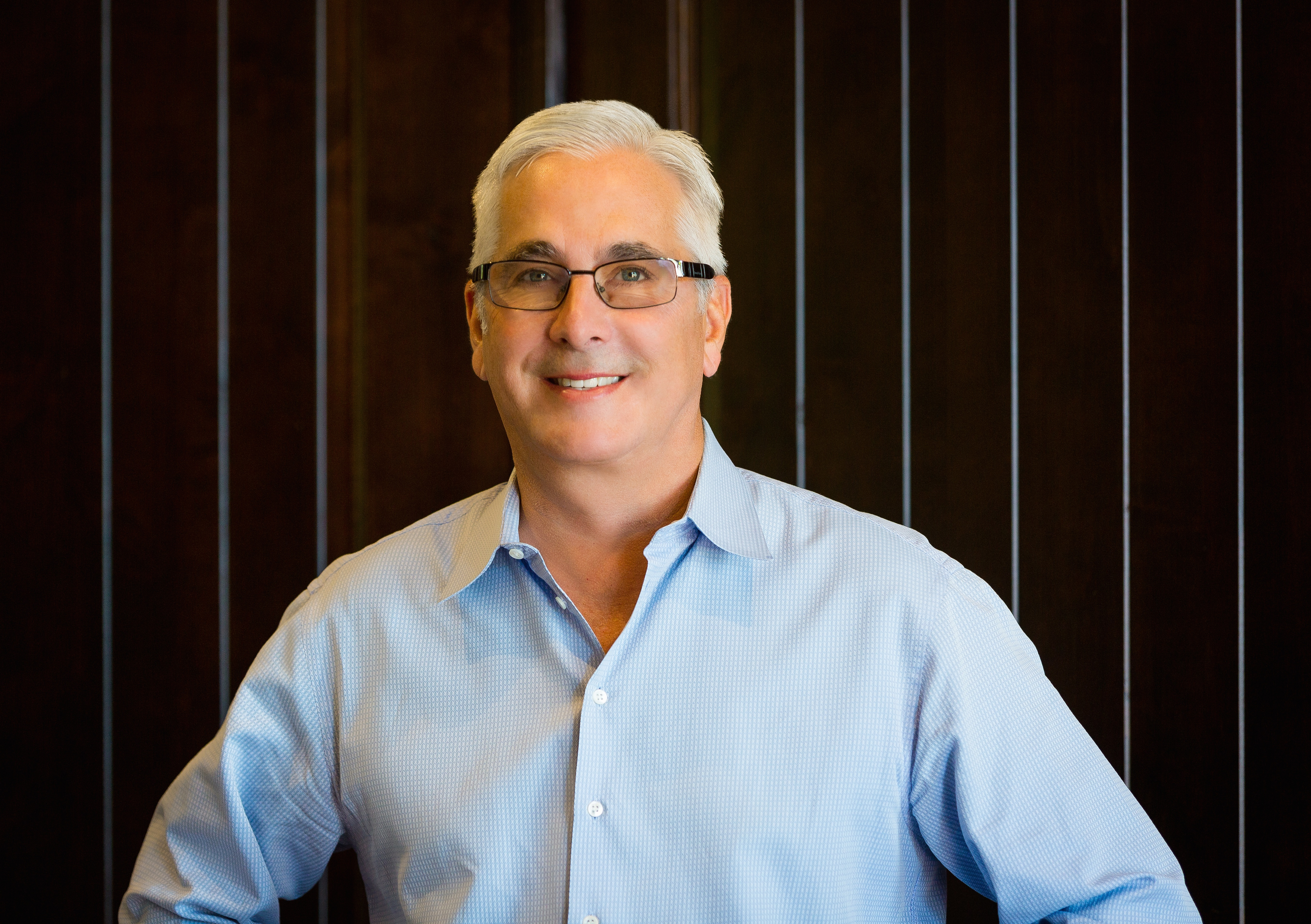 Same photo for Doug, same shoot, but wider image